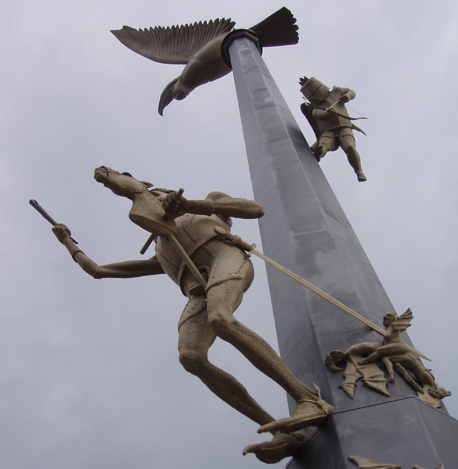 Joseph von Laßberg, by Peter Lenk